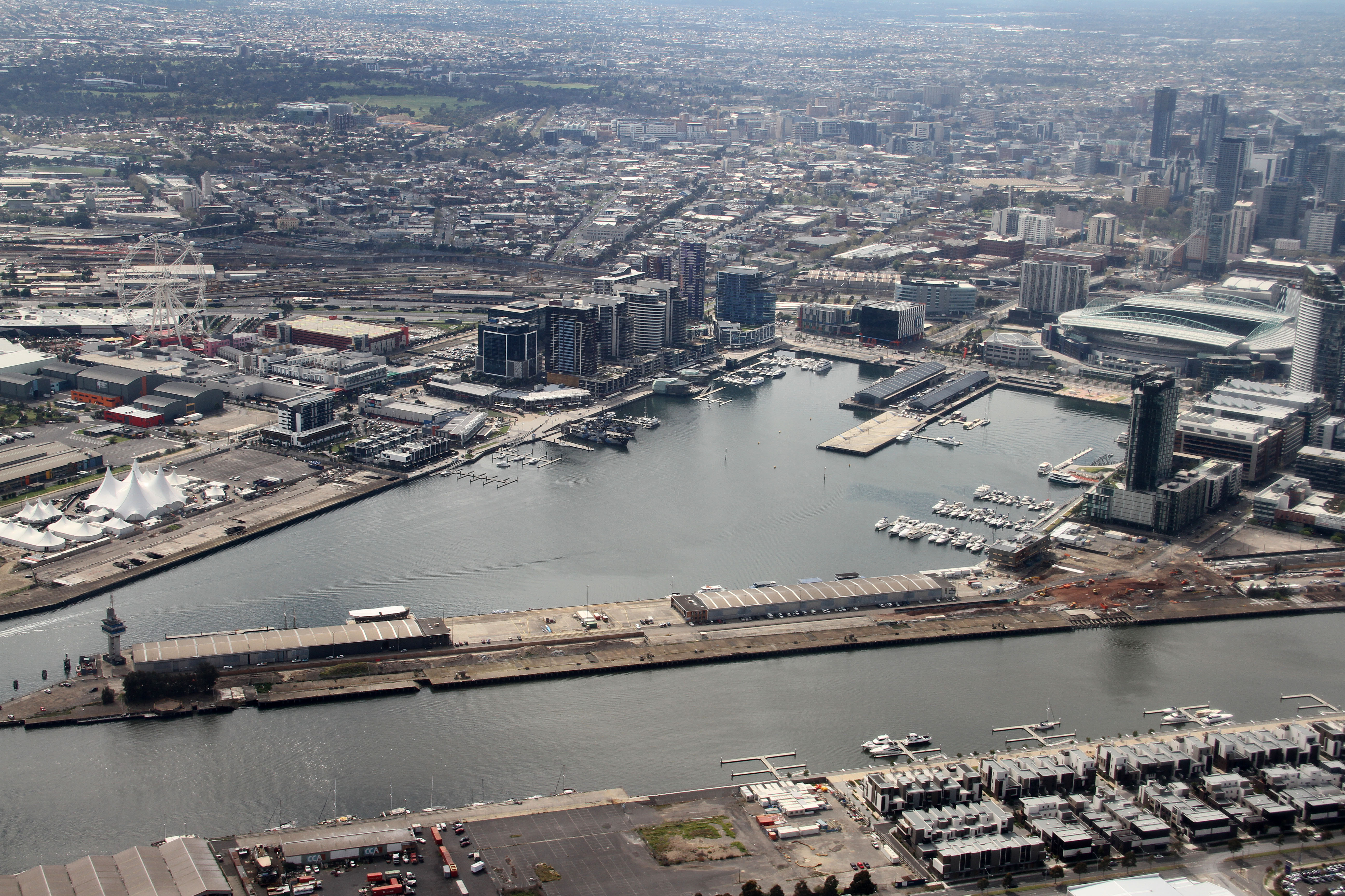 Docklands